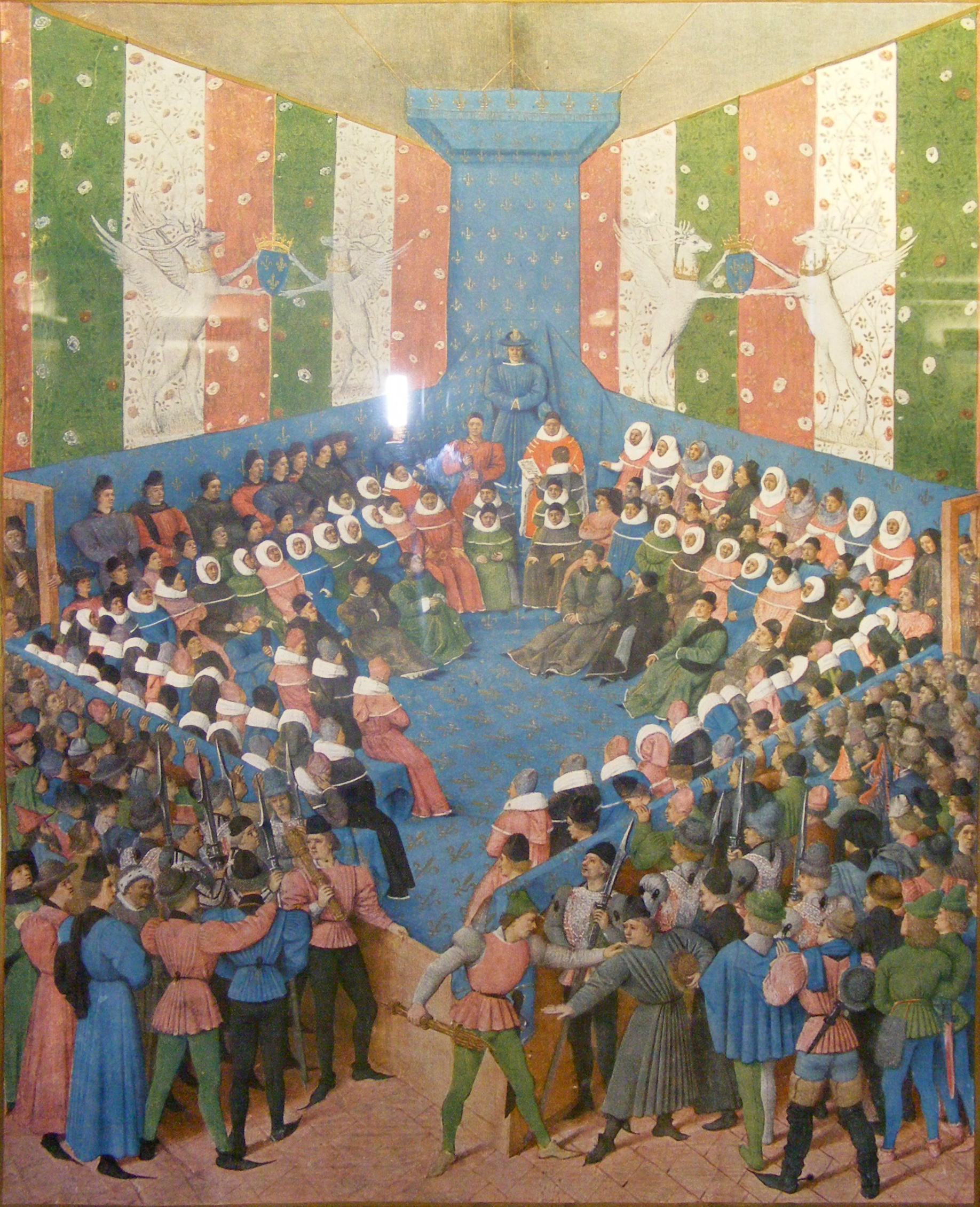 Court session at Vendome – Charles VI as court official under the canopy of state in criminal proceedings against Duke Johann von Alencon. Source: De casibus vivorum illustrium, 1458, at the Medieval Criminal Museum in the town Rothenberg ob der Tauber, Bavaria, Germany.